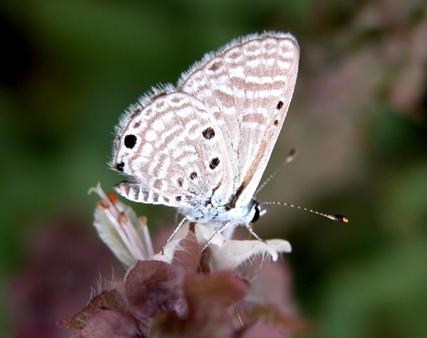 The Bright Babul Blue (Azanus ubaldus) at Bangalore, India.